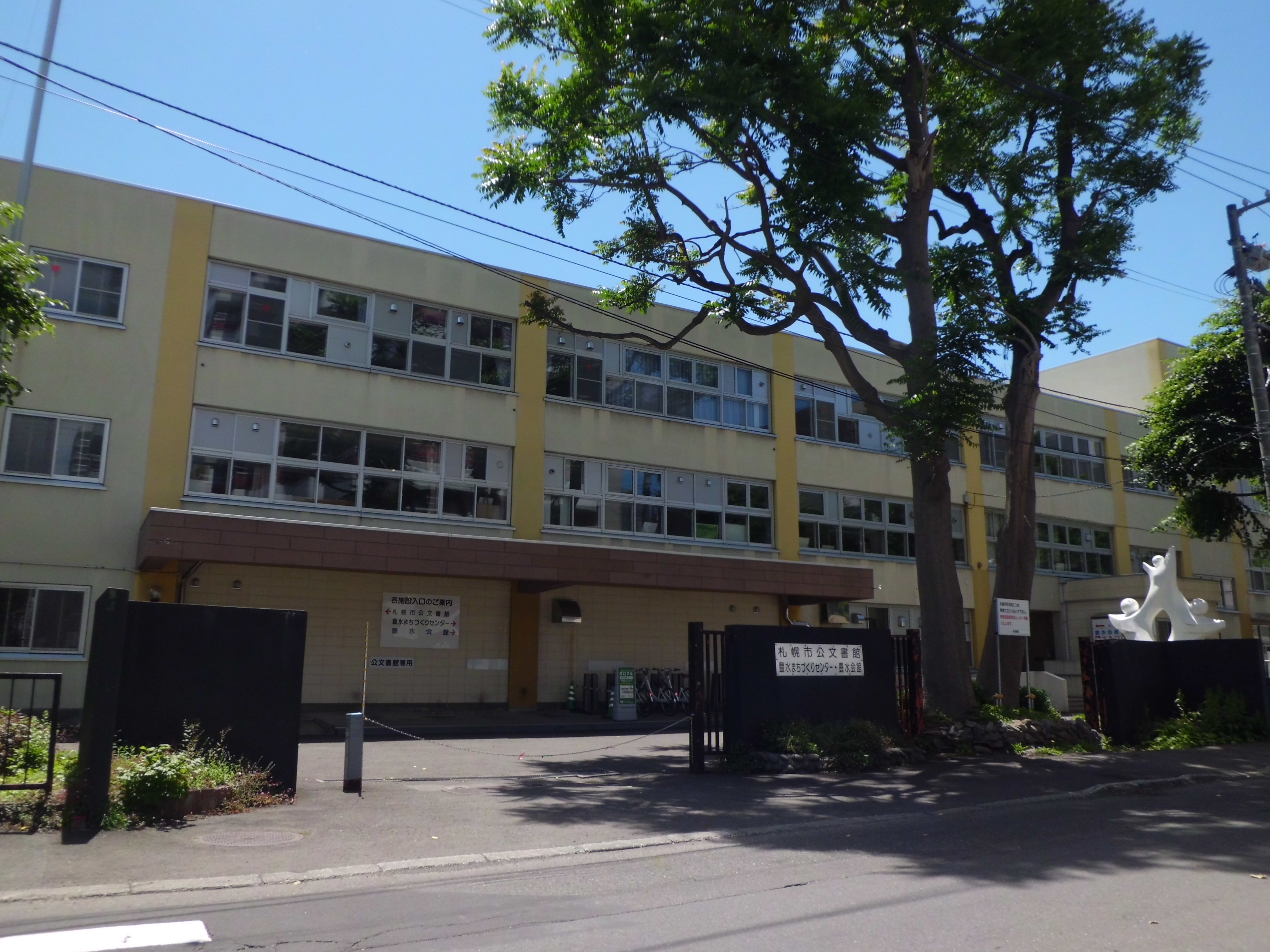 Sapporo City Archives, former Sapporo City Hosui Elementary School.